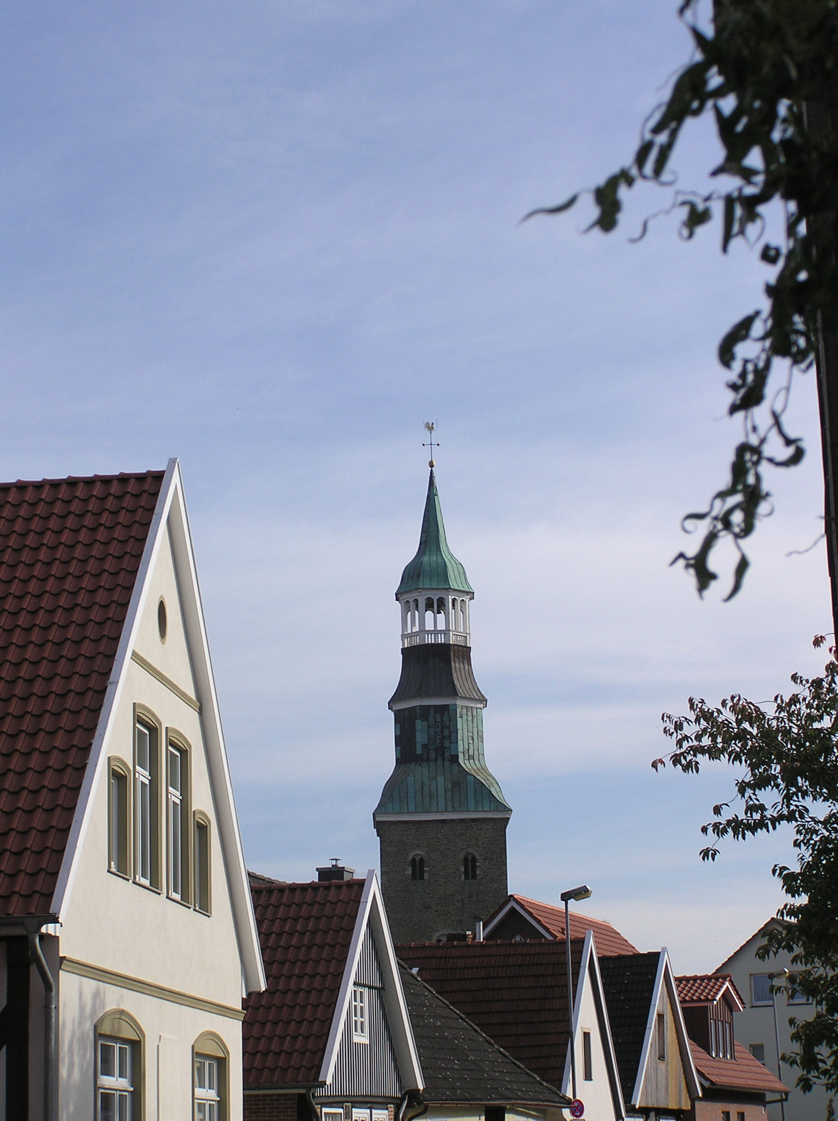 St. Sylvester, Quakenbrück